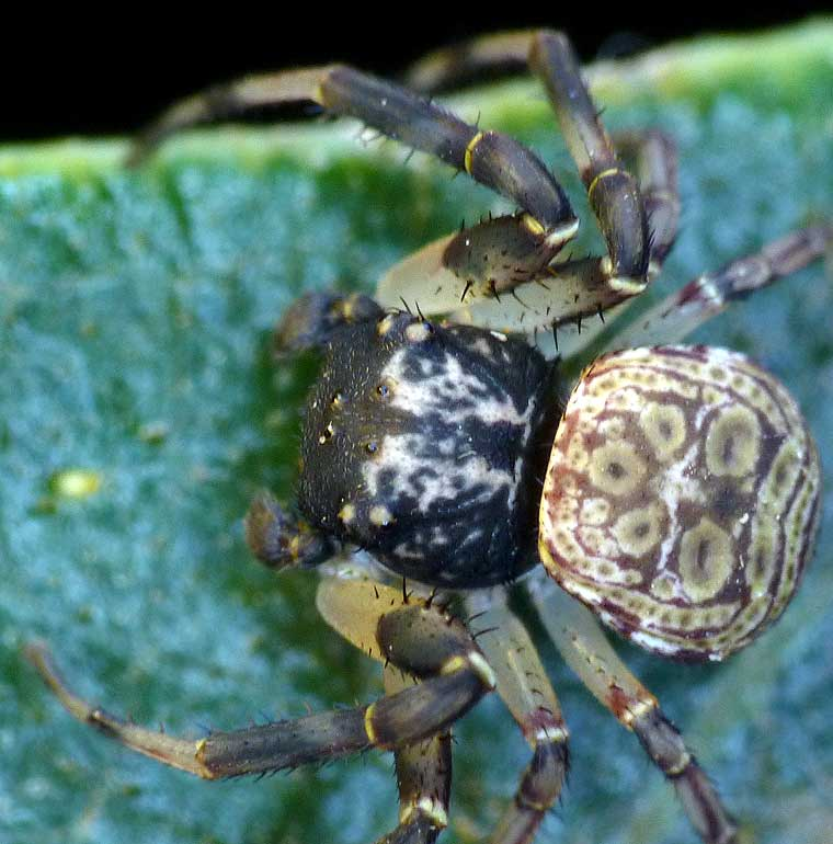 Cymbacha saucia This is a pretty Cymbacha, note the transparent leg sections.